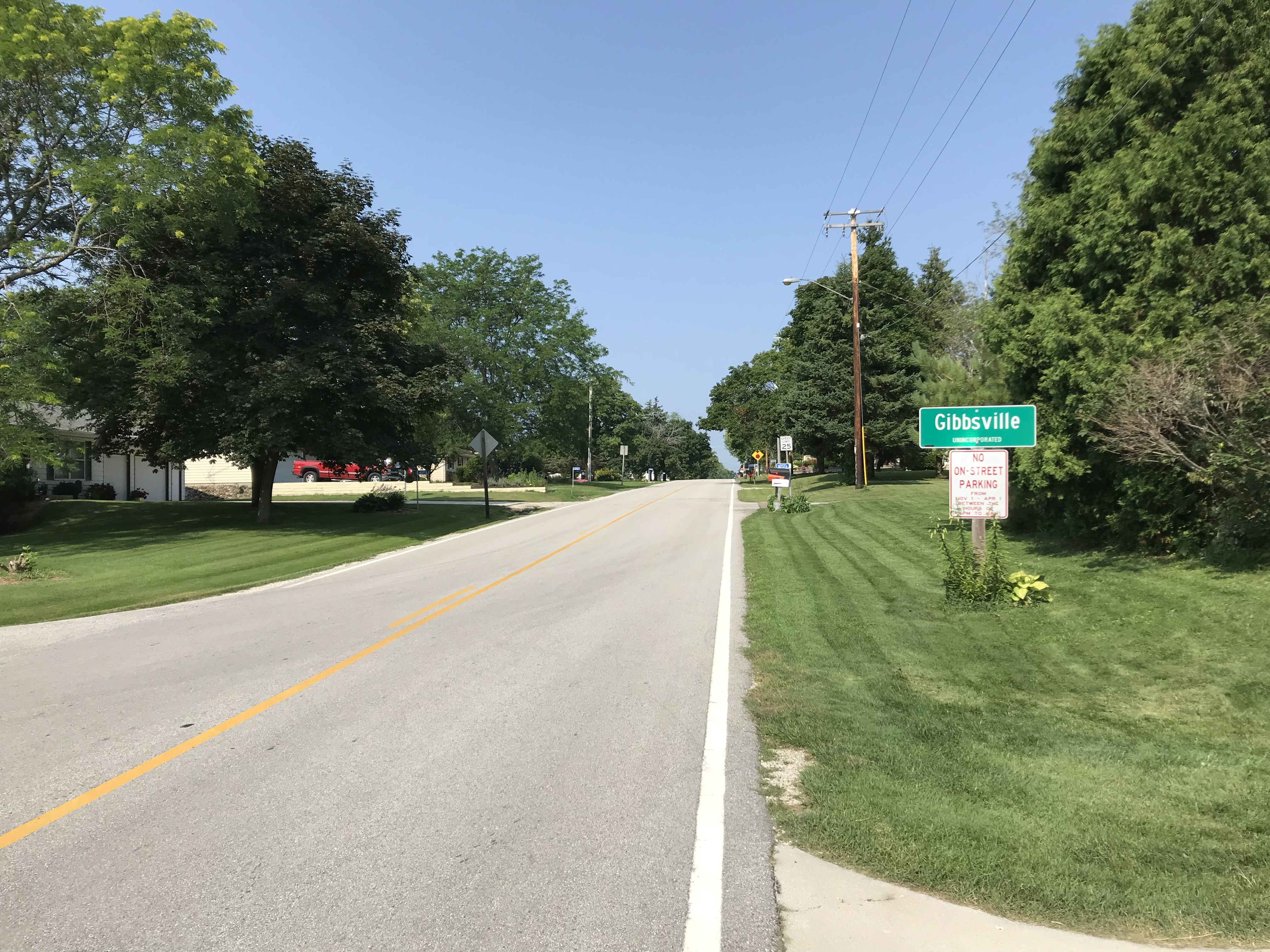 The view coming east on County Trunk OO into the unincorporated community of Gibbsville, Wisconsin.